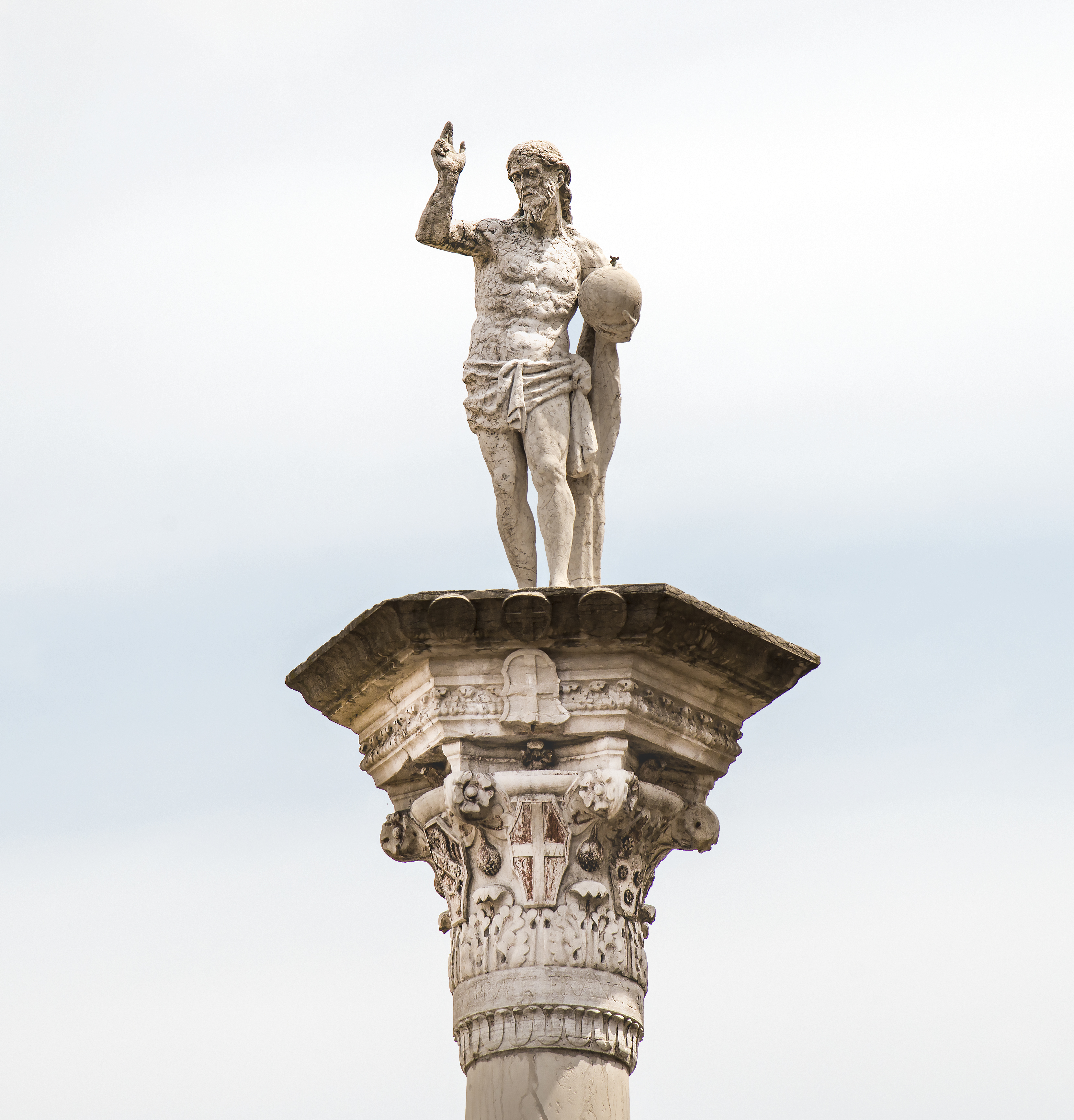 The "Piazza dei Signori" - Statue of the Redeemer in Vicenza. Girolamo Albanese sculpted the beautiful statue of the Redeemer on the column erected by Antonio Pizzocaro in 1640.